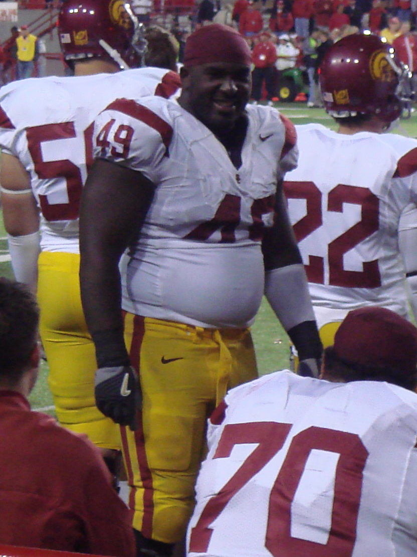 Nose tackle Sedrick Ellis on the sideline during the final minutes of a USC victory over Nebraska.